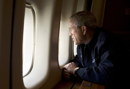 President George W. Bush looks out over the devastation in New Orleans from Hurricane Katrina as he heads back to Washington D.C. Wednesday, Aug. 31, 2005, aboard Air Force One.